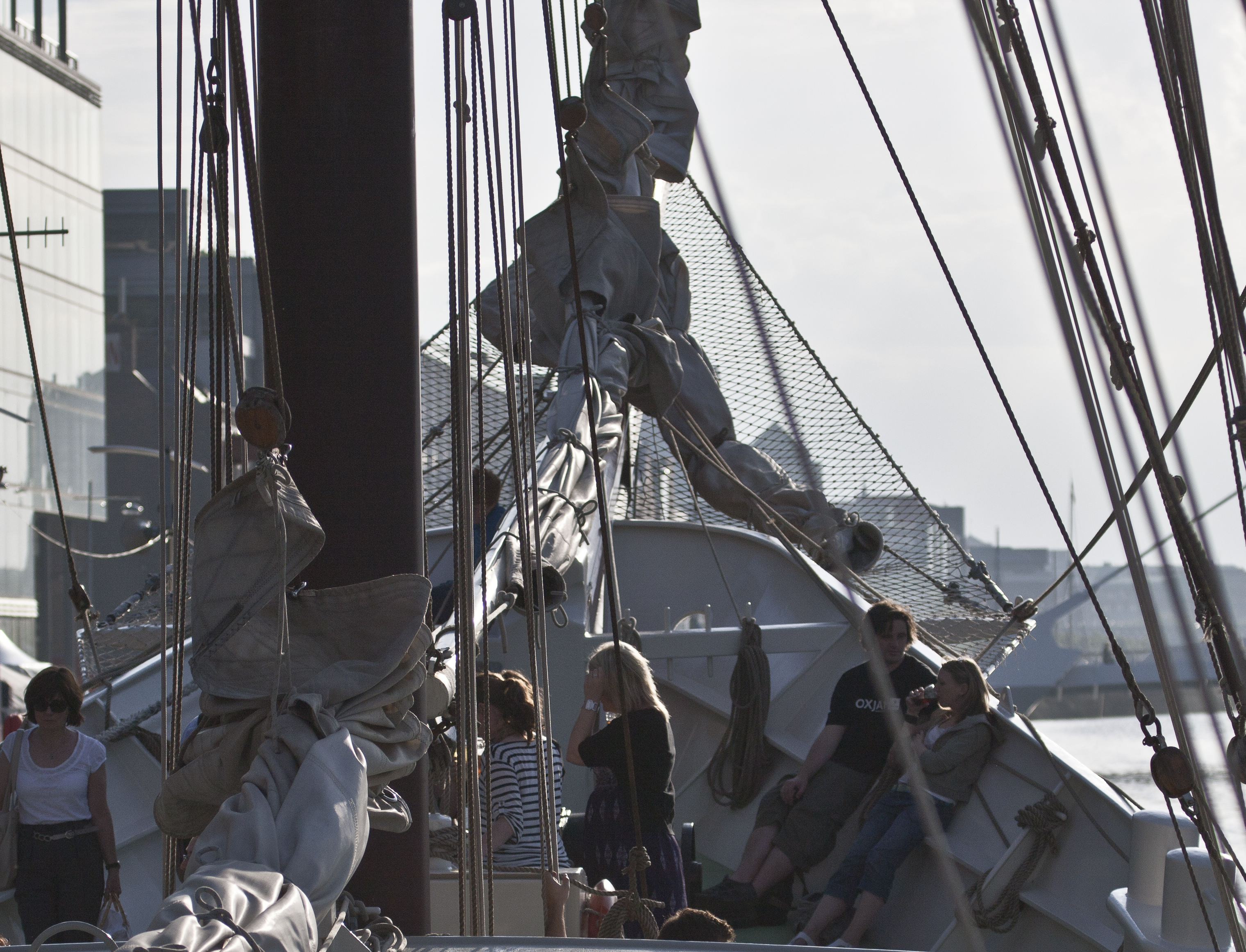 Artemis was built in Norway in 1926 and operated as a whaling ship mainly in the northern and southern polar seas. From her home port in Oslo, she sailed to Spitsbergen and into the Bering Sea, fitted with a steam engine, two auxiliary masts and a variety of harpoon guns. During the 1950’s Artemis was then refitted to haul cargo and operated mainly as a tramp freighter between Asia and South America until she became unable to compete with newer and larger boats. She is now an elegant reminder of a time before diesel engines transformed boat design. Restored and refitted into a passenger ship, she boasts two salons holding over a hundred people in comfort and style. In 2001 she changed hands and was reconverted into an elegant sailing ship. The Artemis now plies the seas in the form of an imposing three-masted barque.